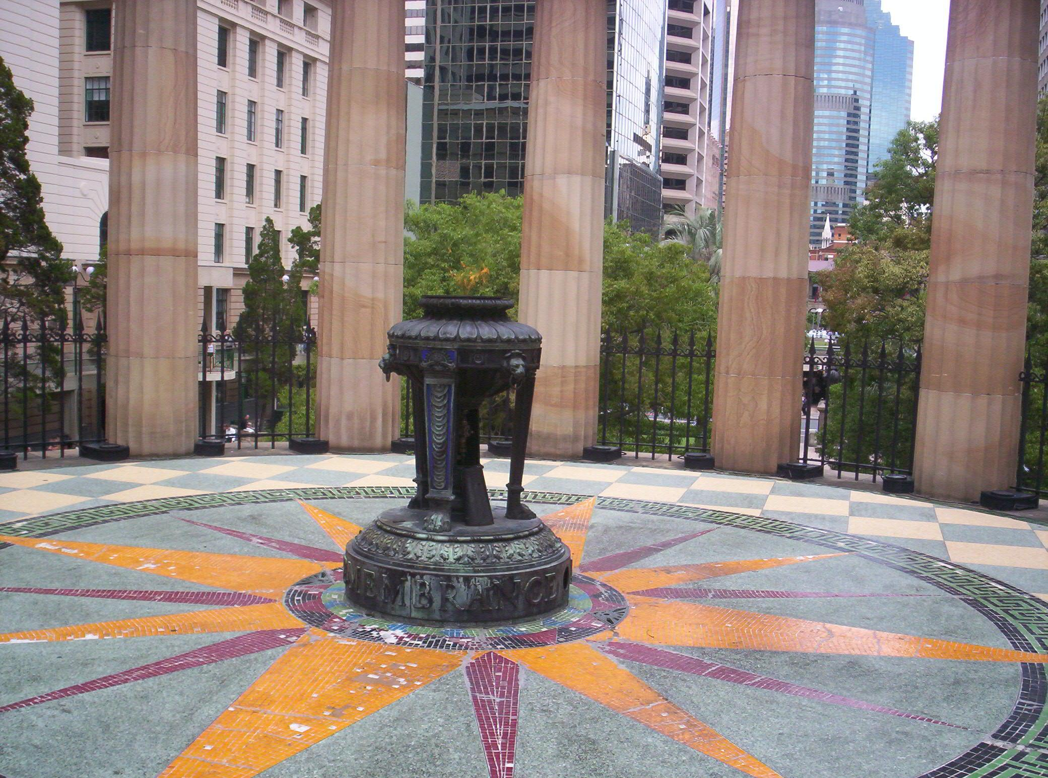 The Eternal Flame at the Shrine of Remembrance, Anzac Square, Brisbane ( this photograph was taken by Figaro )